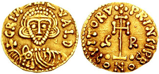 Lombards, Beneventum (nowdays Benevento. Grimoald III. 788-806 AD. EL Tremissis (1.24 gm). Struck as Princeps, 792-806 AD. GRIM- -VALD, crowned and draped facing bust, holding globus cruciger VITOR∇ +PRINCIP, cross potent; G R flanking; C•ONO•B. MEC 1, 1099 var. (PRINCI); BMC Vandals pg. 172, 14 var. (same); CNI XVIII pg.158, 36. Good VF.